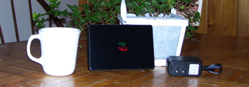 Picture of CherryPal Internet device ("net-top")